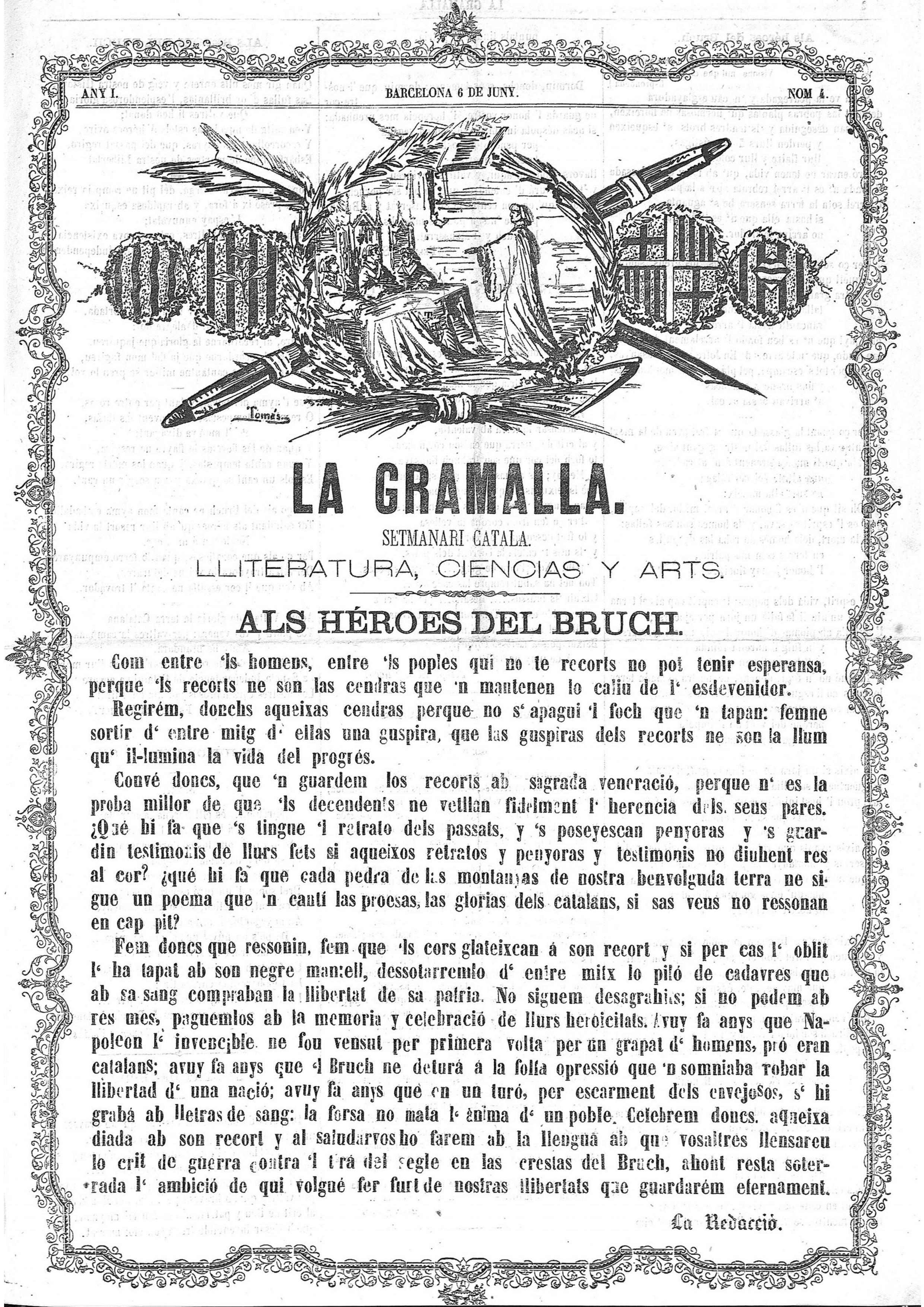 First page of the arts and science magazine La Gramalla